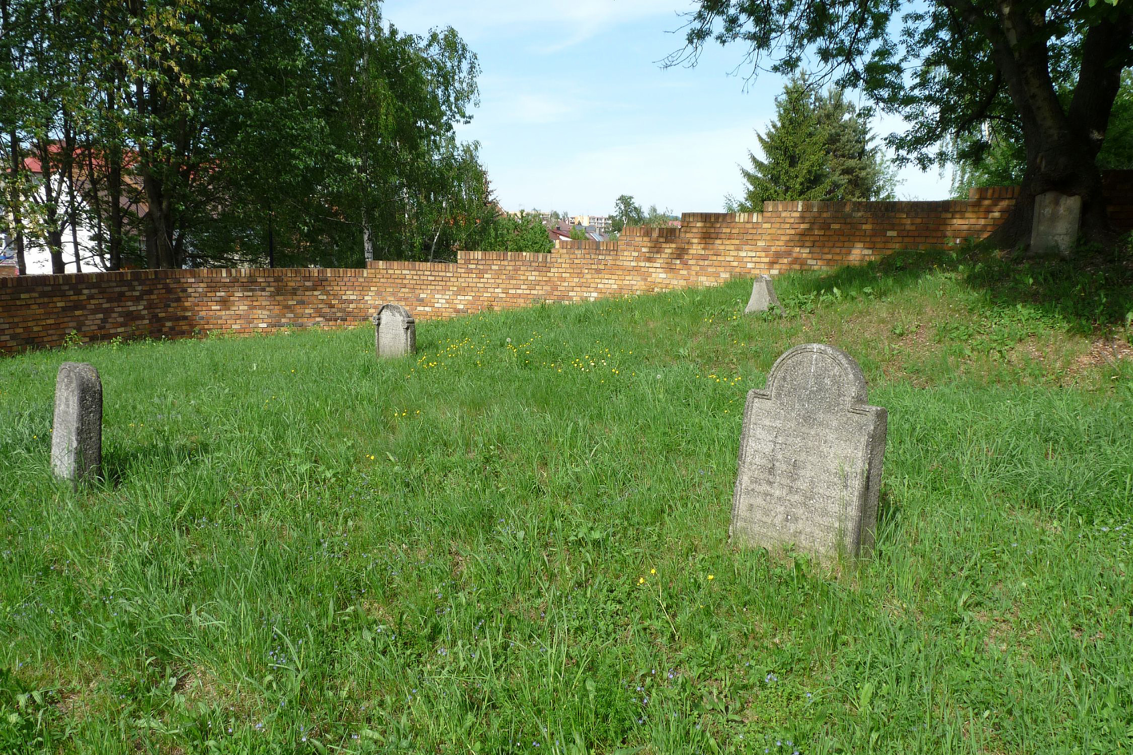 Old Jewish cemetery in the town of Benešov, Central Bohemian Region, Czech Republic